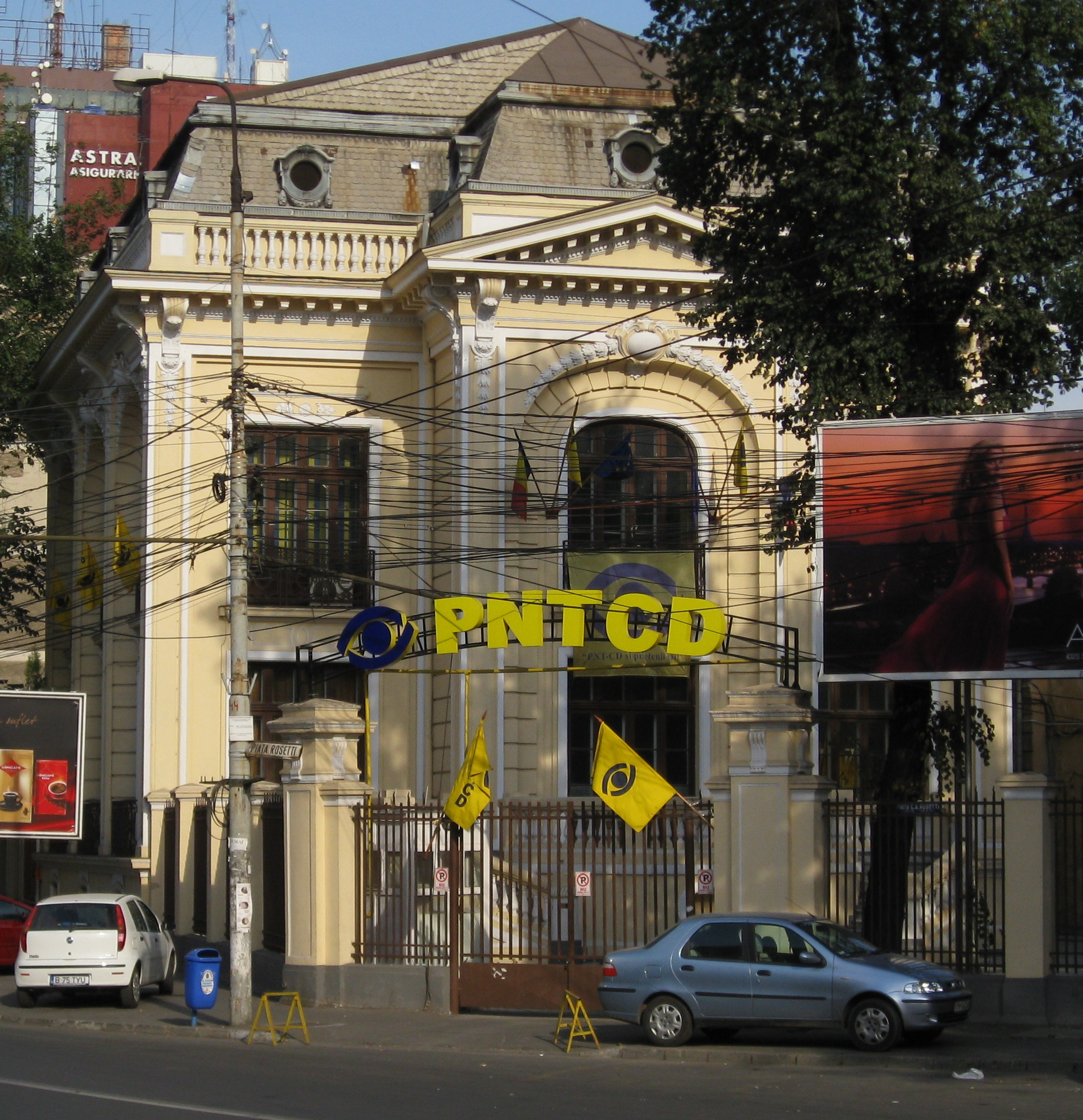 Christian-Democratic National Peasants' Party headquarters, Bucharest, Romania